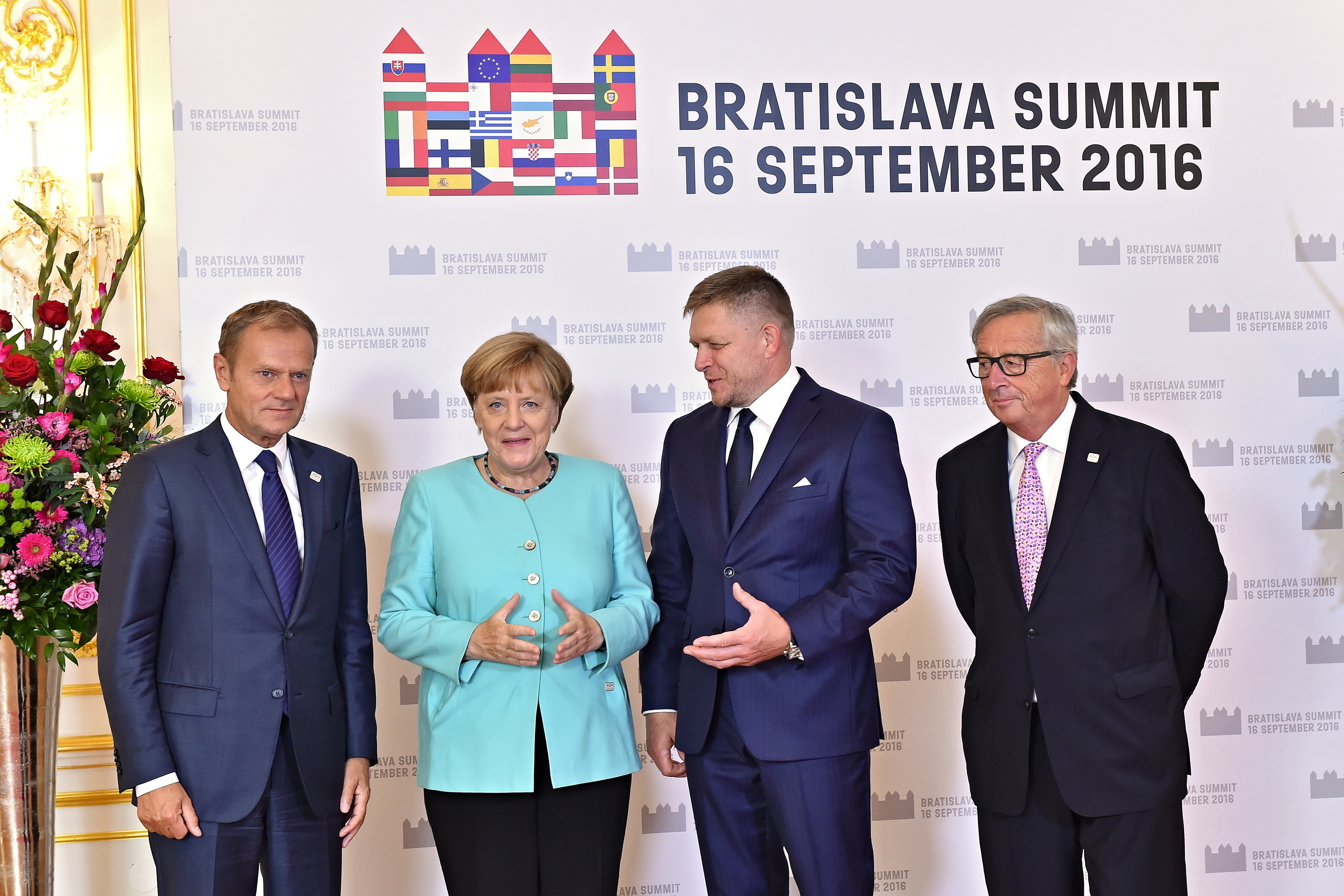 HANDSHAKE - BRATISLAVA SUMMIT 16. SEPTEMBER 2016. Donald Tusk, European Council, President - Angela Merkel, Germany, Federal Chancellor - Róbert Fico, Slovakia, Prime Minister- Jean-Claude Juncker, European Commission, President Photo Rastislav Polak